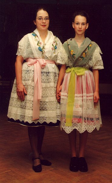 National costume of the Sorbs, as it is worn in the northernmost part of the Sorbian territory (Spreewald) in eastern Germany